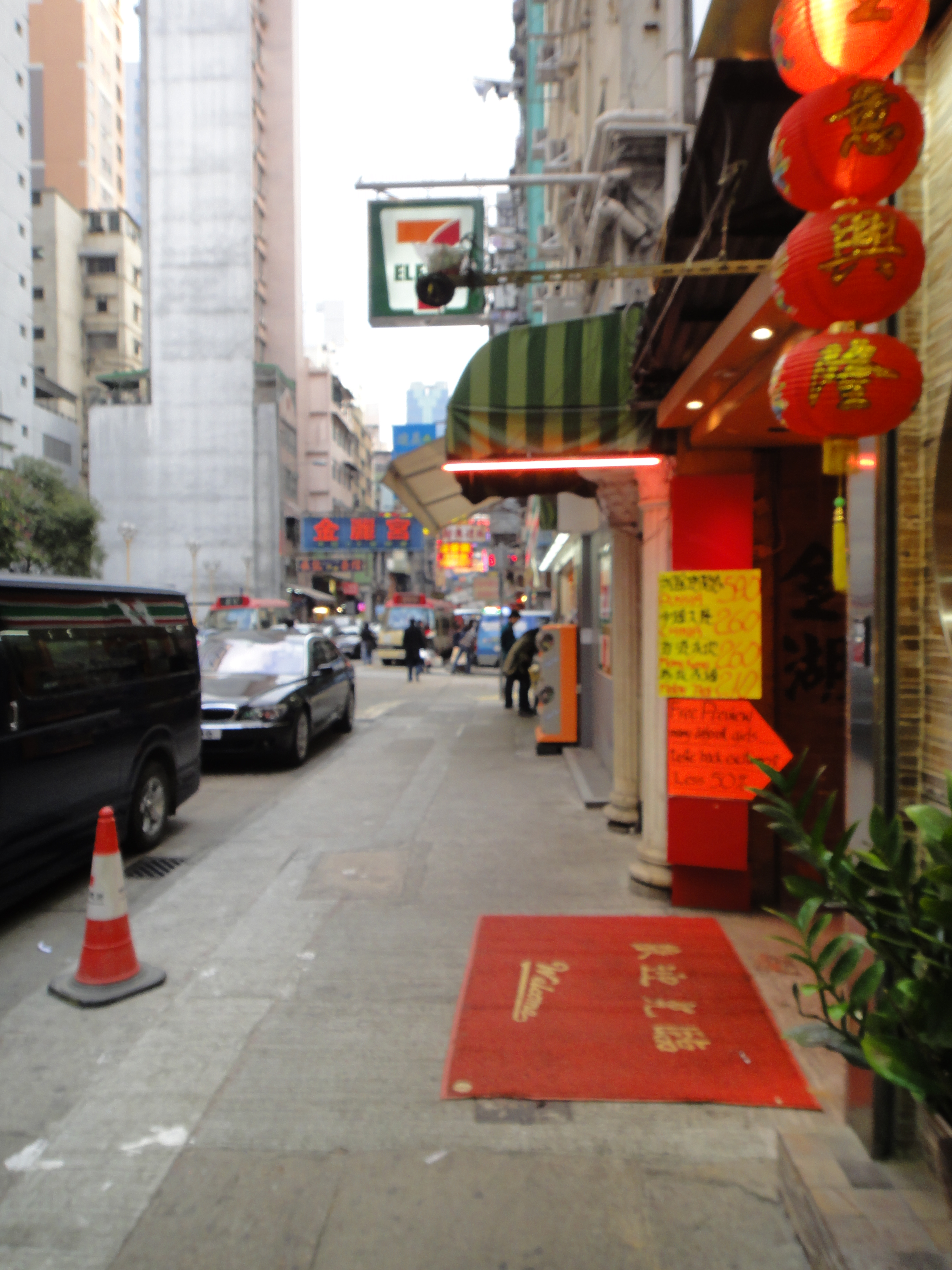 Red Light Shop